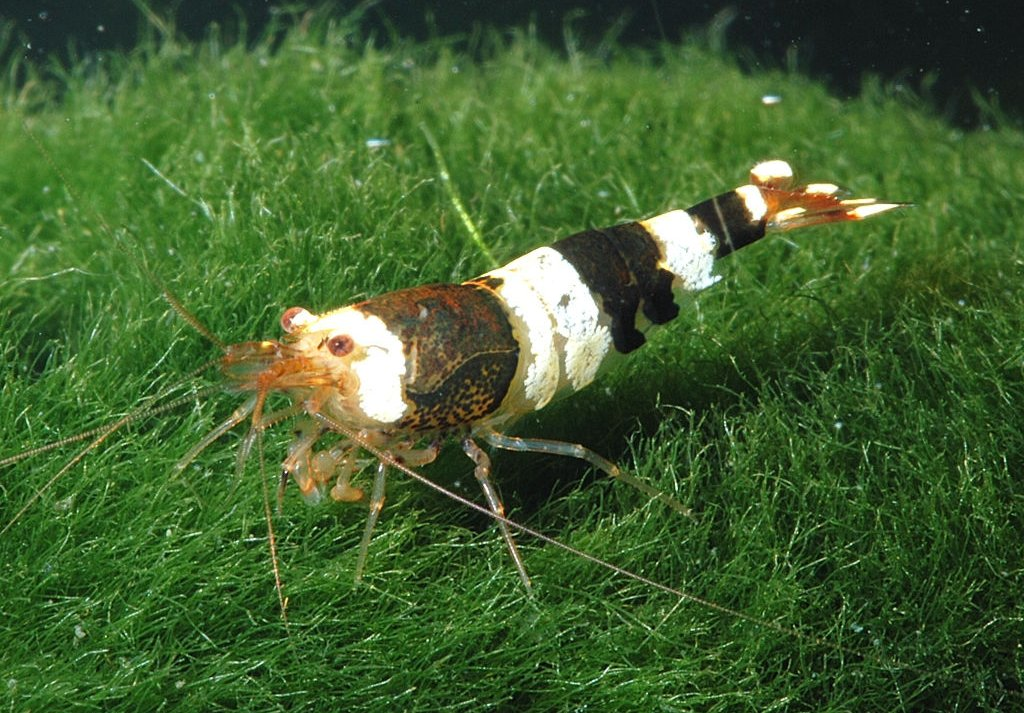 Caridina cf. cantonensis black bee is a freshwatershrimp colored black and white looking like a bee.